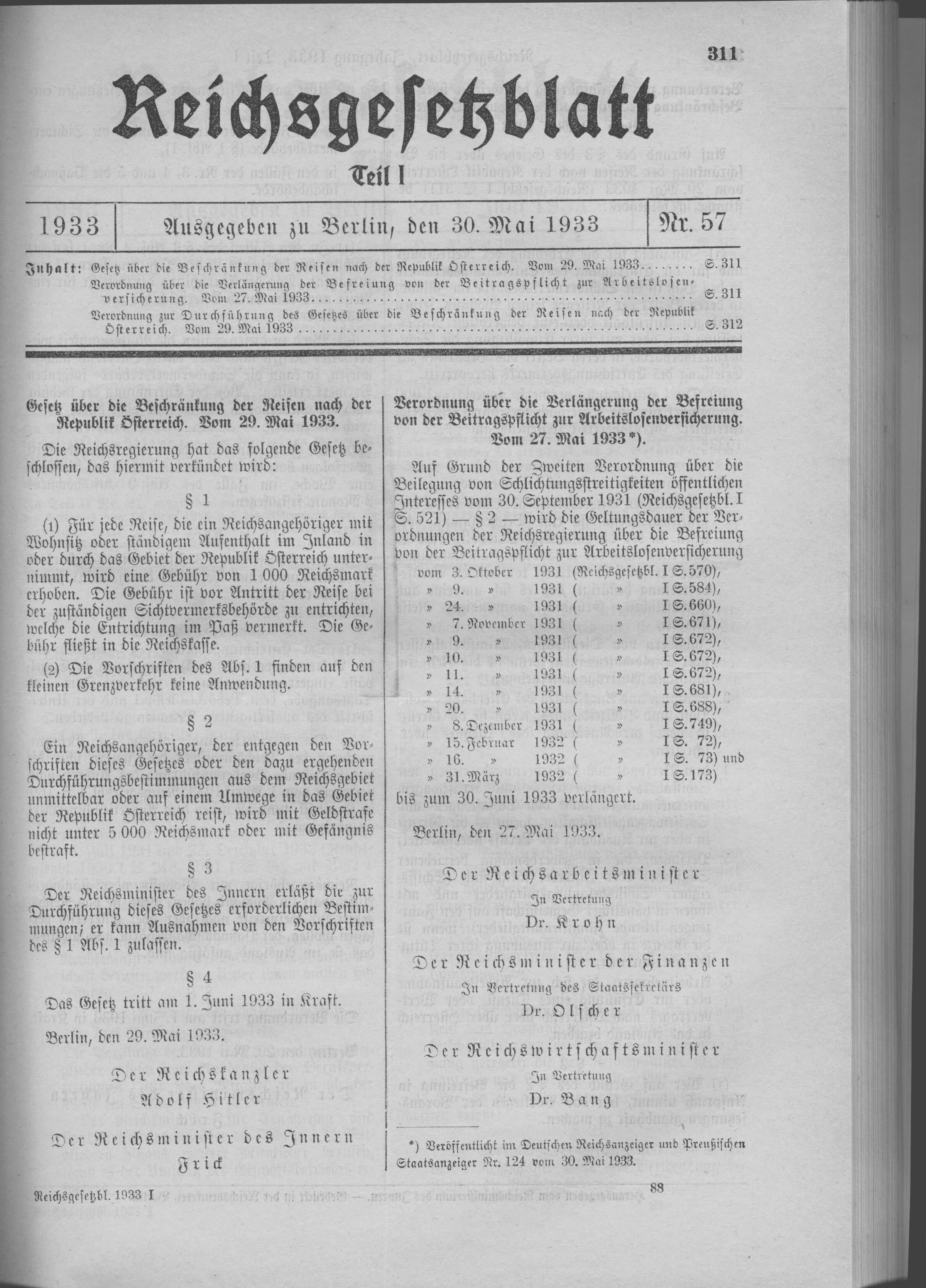 Scan from the Imperial Law Gazette of Germany, 1933, part 1